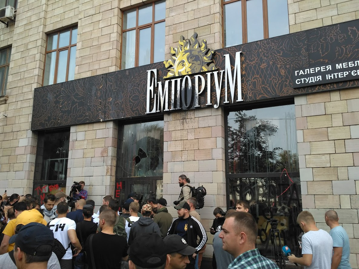 Rally on 4 Hrushevskogo Str., Kyiv, caused by memorable graffiti removal